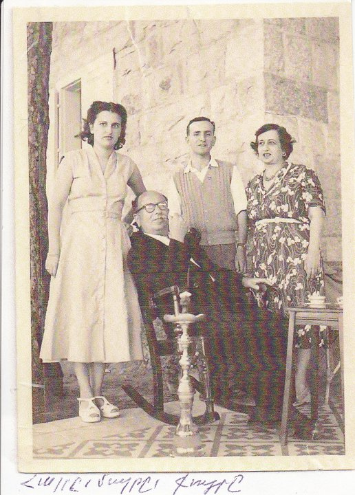 Ara Berkian and his family